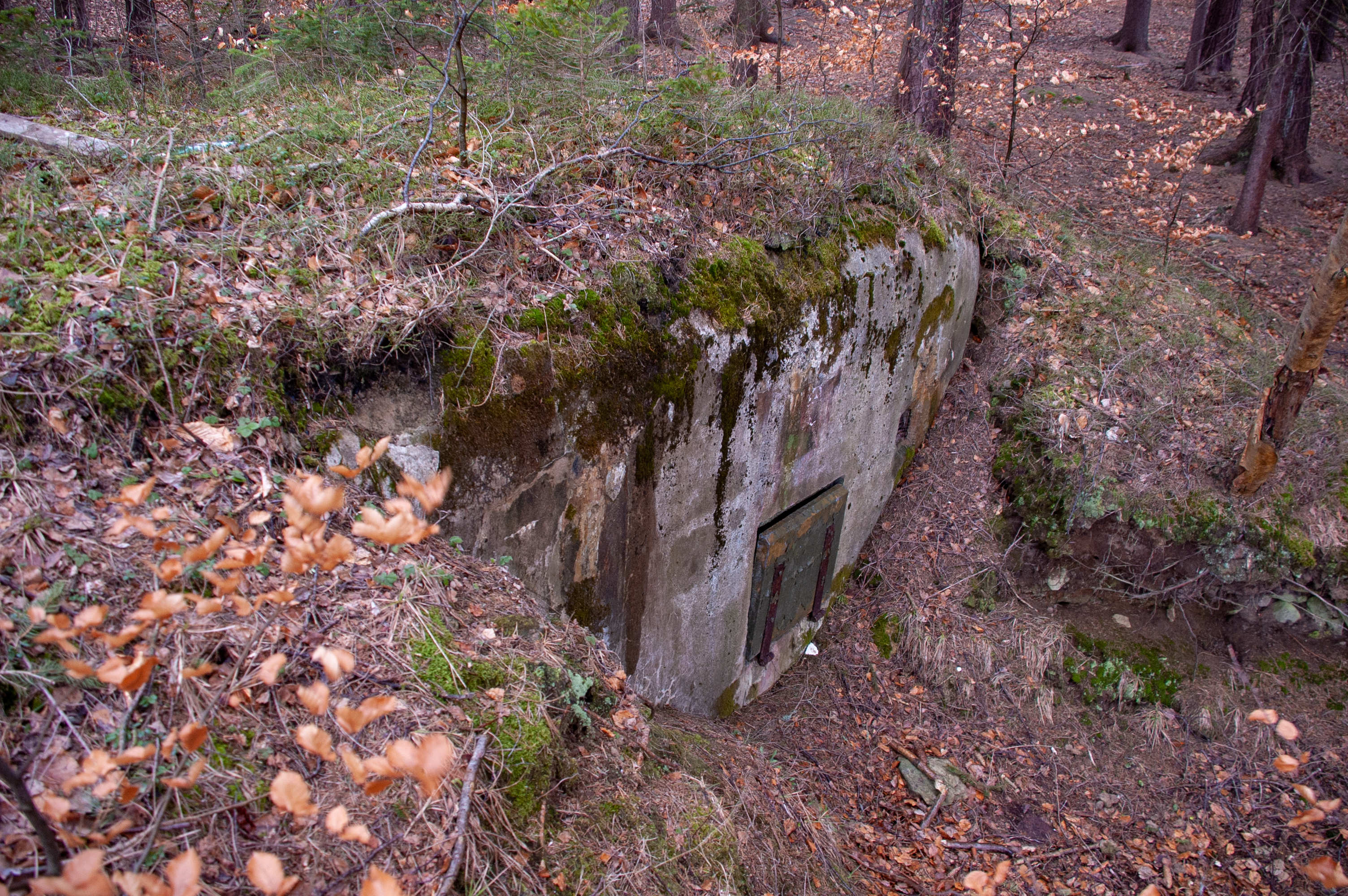 This image was created as a part of Editaton Prachatice (Czech).